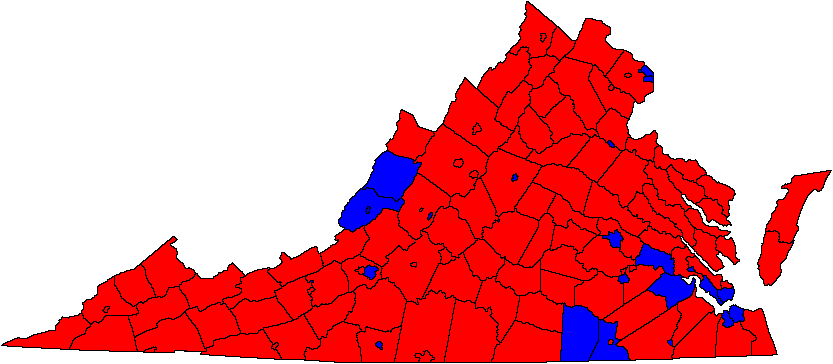 Map showing county choices of the 2009 gubernatorial election in Virginia, between Republican Bob McDonnell and Democrat Creigh Deeds